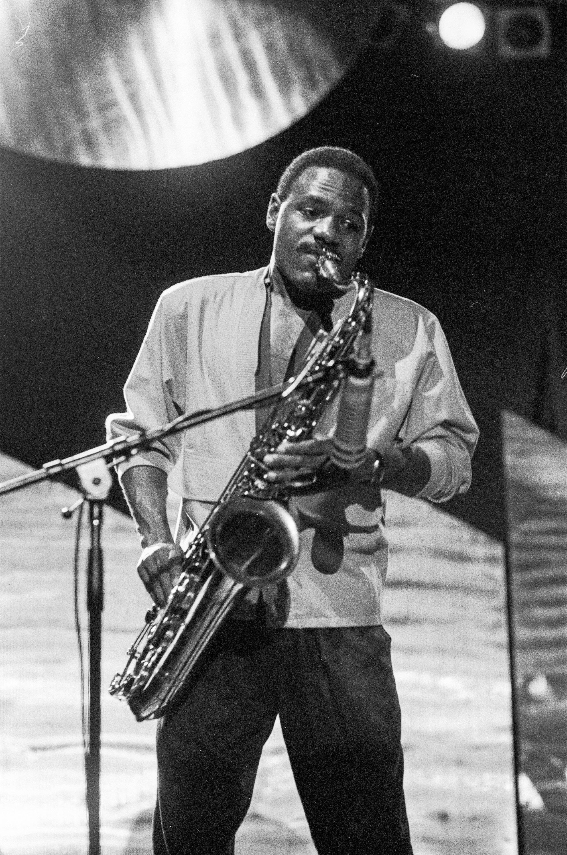 Saxophonist Kirk Whalum performs with Larry Carlton & The Yellow Jackets, Bailey Hall, Cornell University, September 14, 1987.